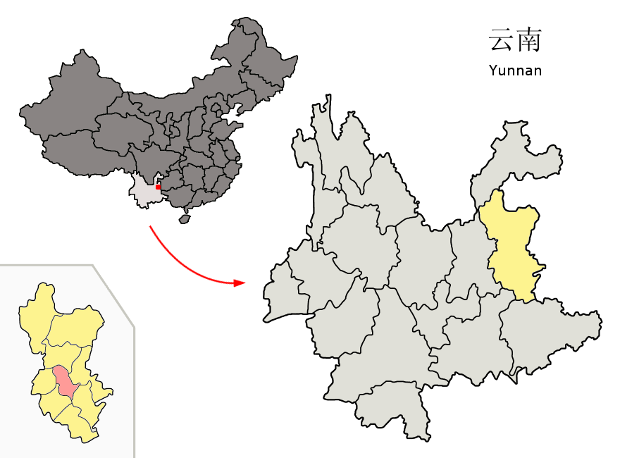 Location of Qilin District (pink) and Qujing Prefecture (yellow) within Yunnan province of China Map drawn in september 2007 using various sources, mainly : Yunnan province administrative regions GIS data: 1:1M, County level, 1990 Yunnan Counties map from